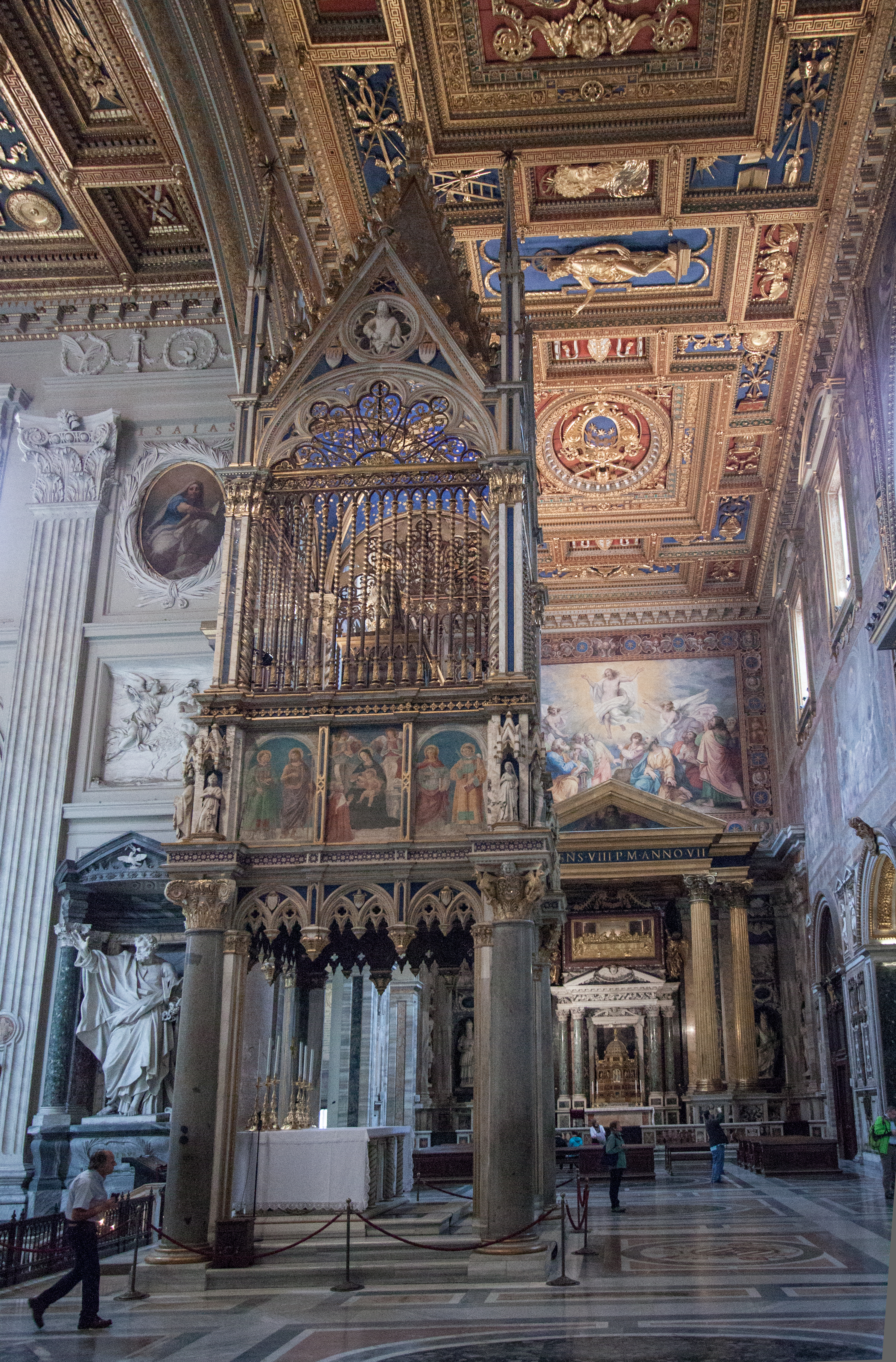 Archbasilica of St. John Lateran interior